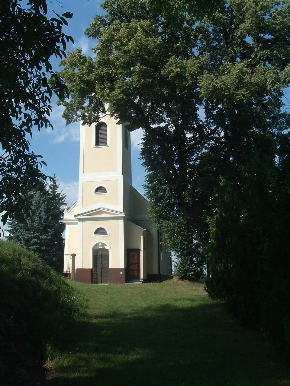 Roman Catholic Church in Ólmod, Hungary. Szent Márton római katolikus templom